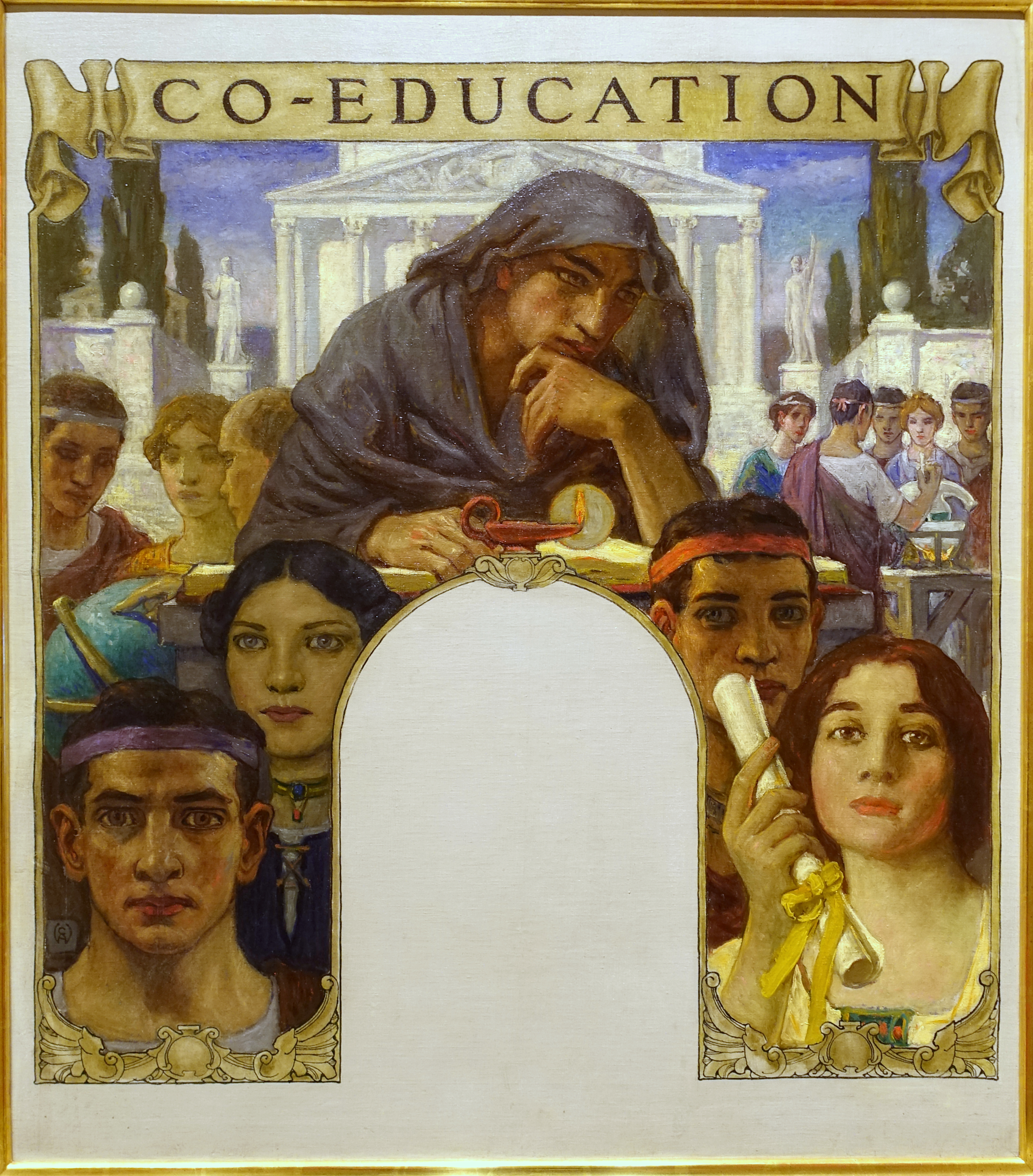 Exhibit in the Cape Ann Museum - Gloucester, Massachusetts, USA.